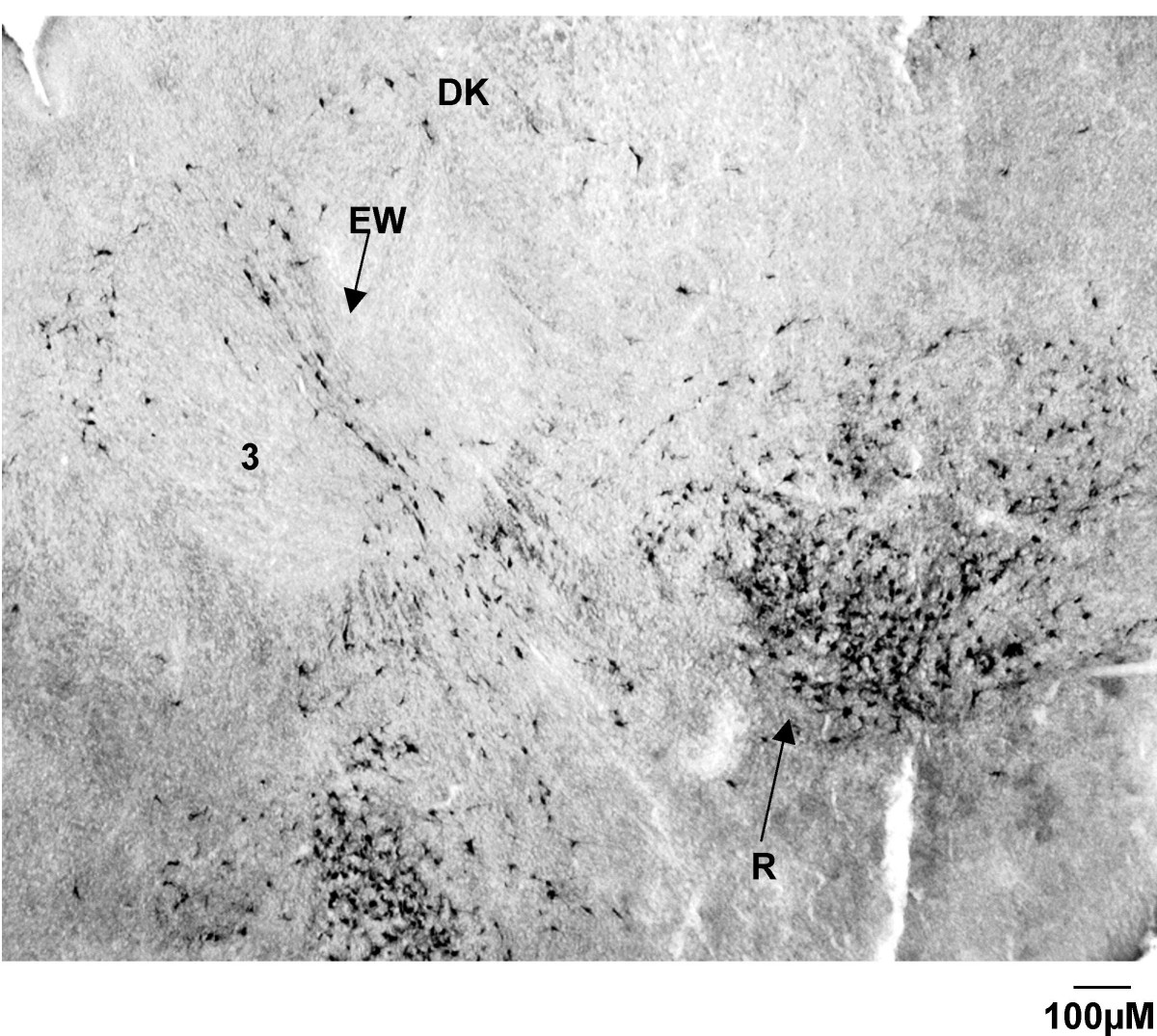 CTB labelling in the red nucleus of a G55 fetus. Note the CTB labelling is bilateral, and forms a distinct tight cluster, with a greater density of cells towards the ventral region of the nucleus. Labelling is also observed in the nucleus of Darkschewitsch (Dk) and in the vicinity of the Edinger-Westphal nucleus (EW). 3 = oculomotor nucleus.